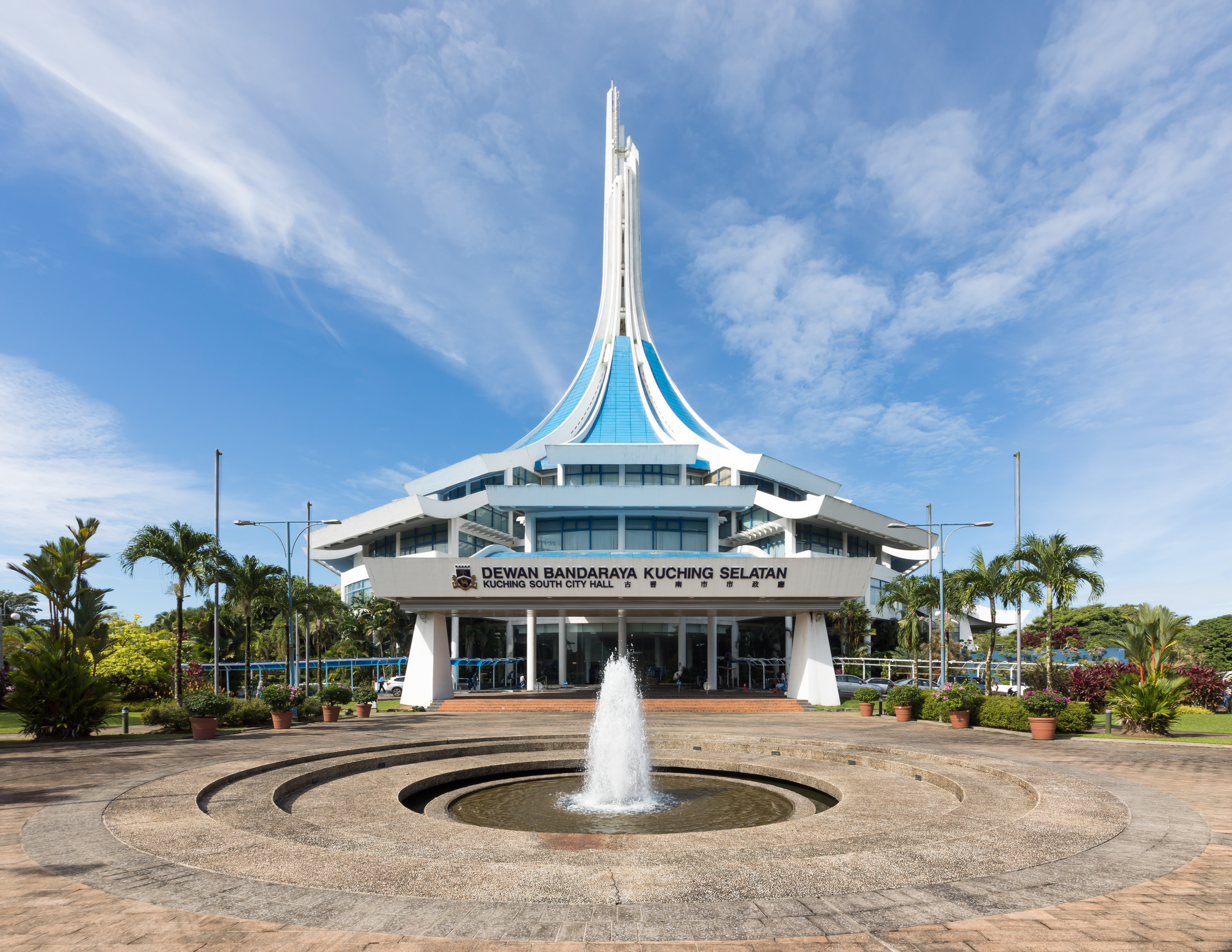 Kuching, Sarawak, Malaysia: The Kuching South City Hall (Dewan Bandaraya Kuching Selatan)